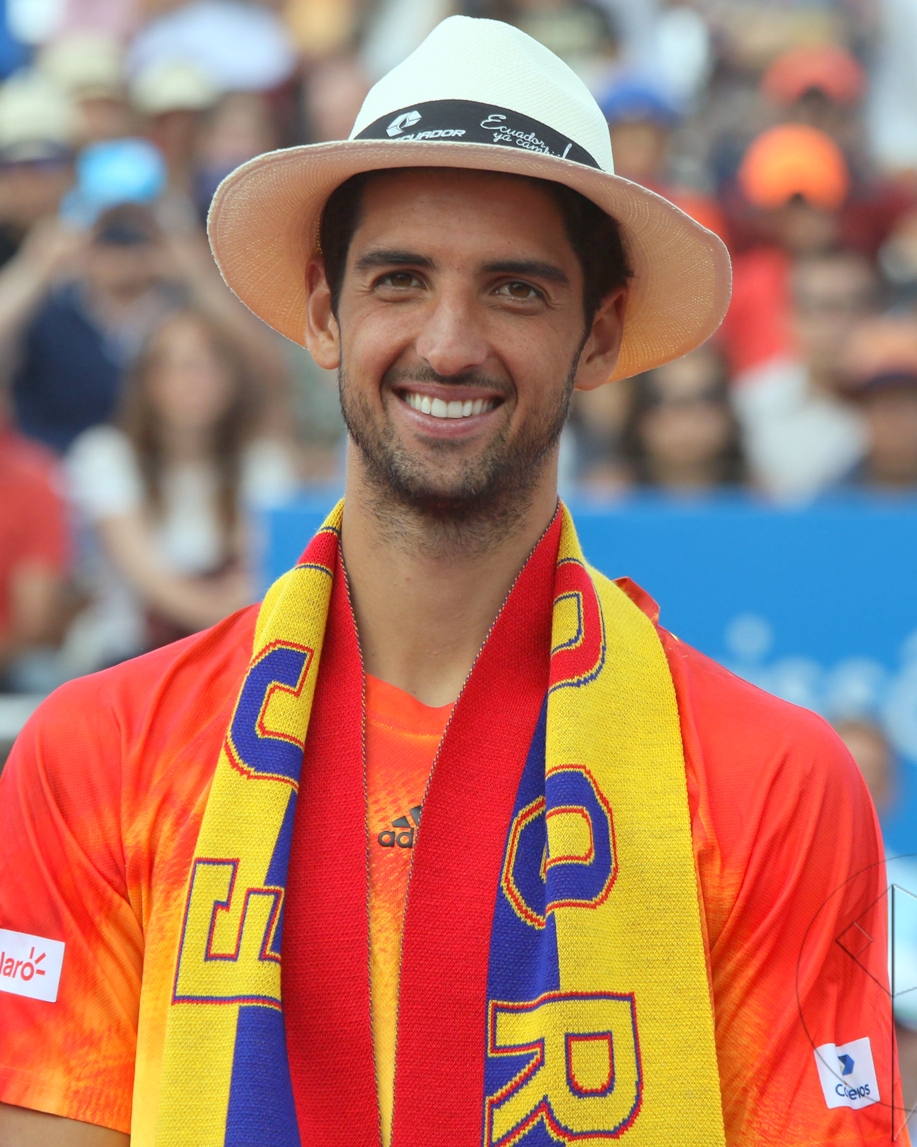 2016 Ecuador Open Quito Final: Víctor Estrella Burgos vs. Thomaz Bellucci.